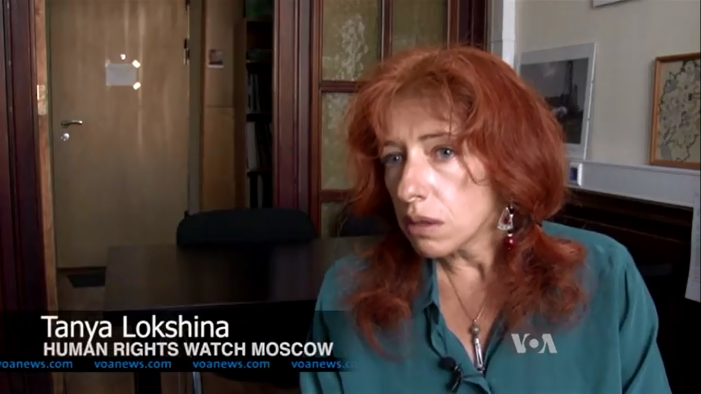 Russia Program Director in Moscow Tanya Lokshina. Interview for Voice of America. January 18, 2016